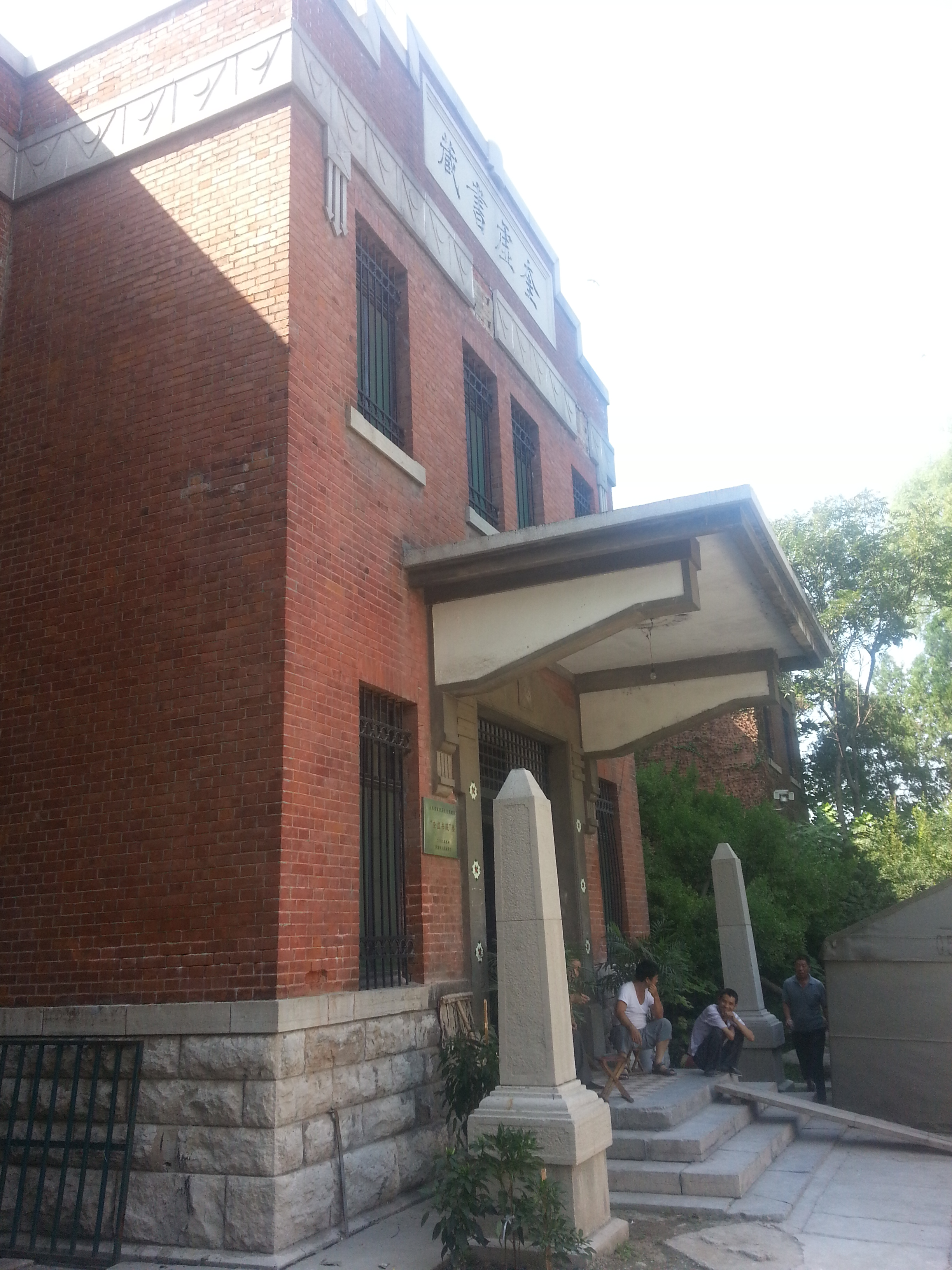 Photograph of the main entrance to the Kuixu Library building in Jinan, Shandong, China.